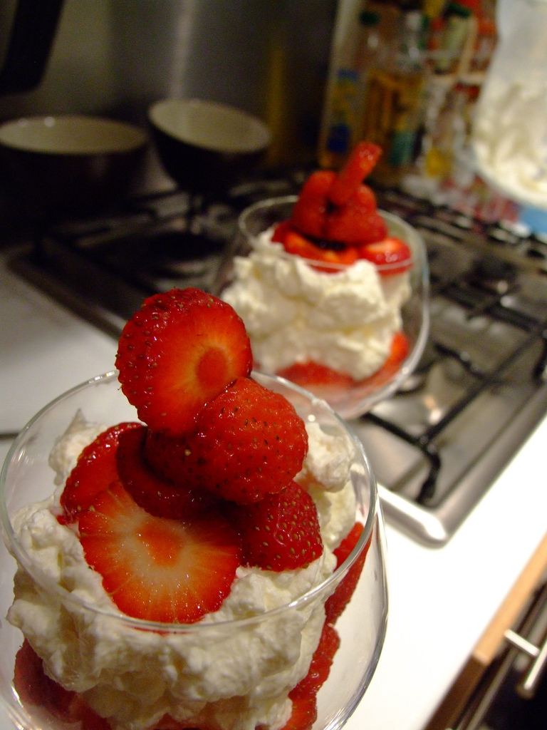 Eton mess, a dessert consisting of a mixture of strawberries, pieces of meringue and cream, which is traditionally served at Eton College's annual prize-giving celebration picnic on 4 June.